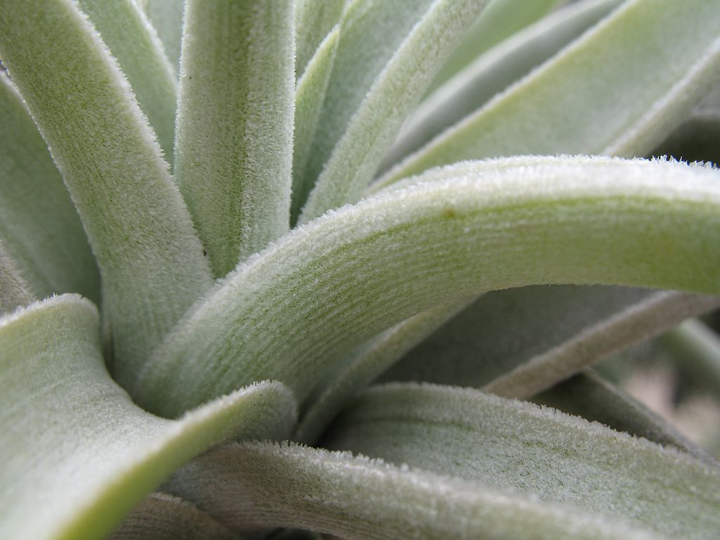 Tillandsia lotteae, in cultivation at the Botanical Garden of Heidelberg, Germany.